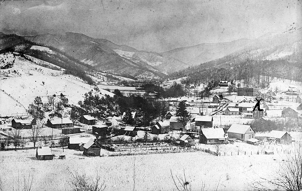 Elevated view of the town of Barnardsville, Buncombe County, N. C., in winter, postcard, c.1921. From the Strickland Family Photograph Collection, PhC.39, in the State Archives of North Carolina, Raleigh, NC.